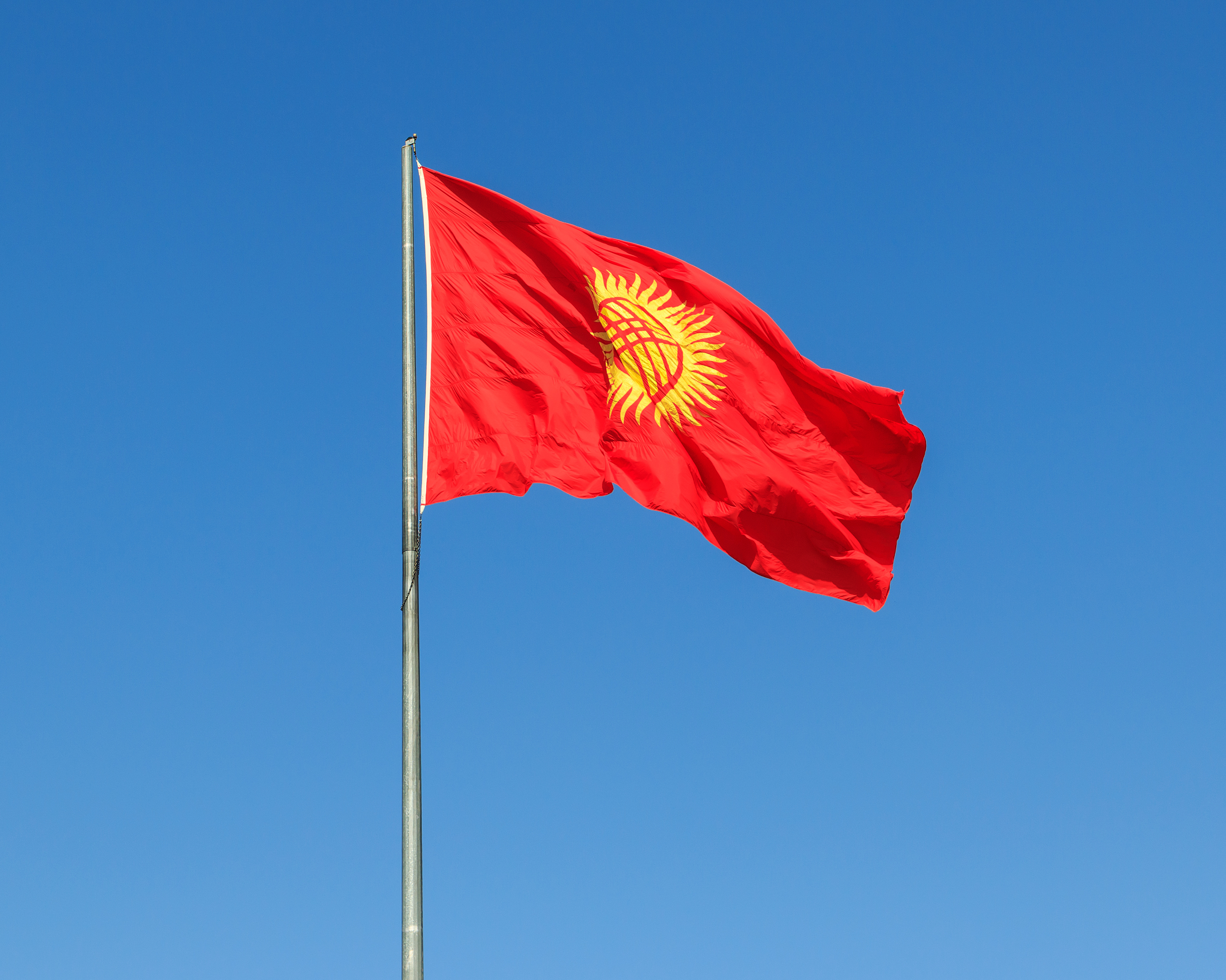 State flag of Kyrgyzstan at Manas statue in Bishkek, Kyrgyzstan